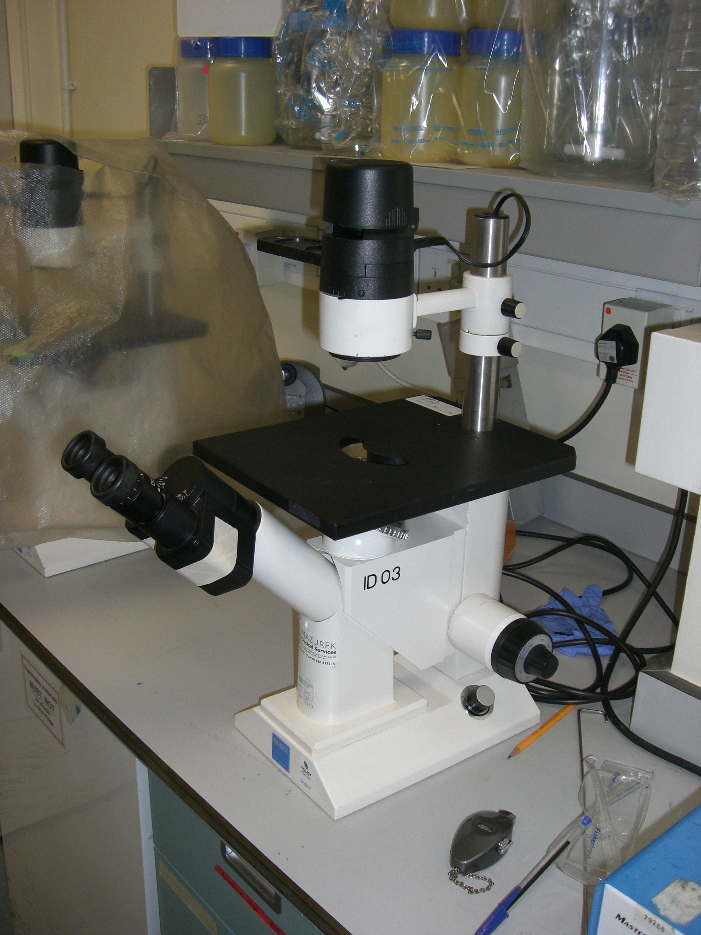 By Richard Wheeler (Zephyris) 2007. Zeiss ID 03 Inverted microscope for tissue culture.